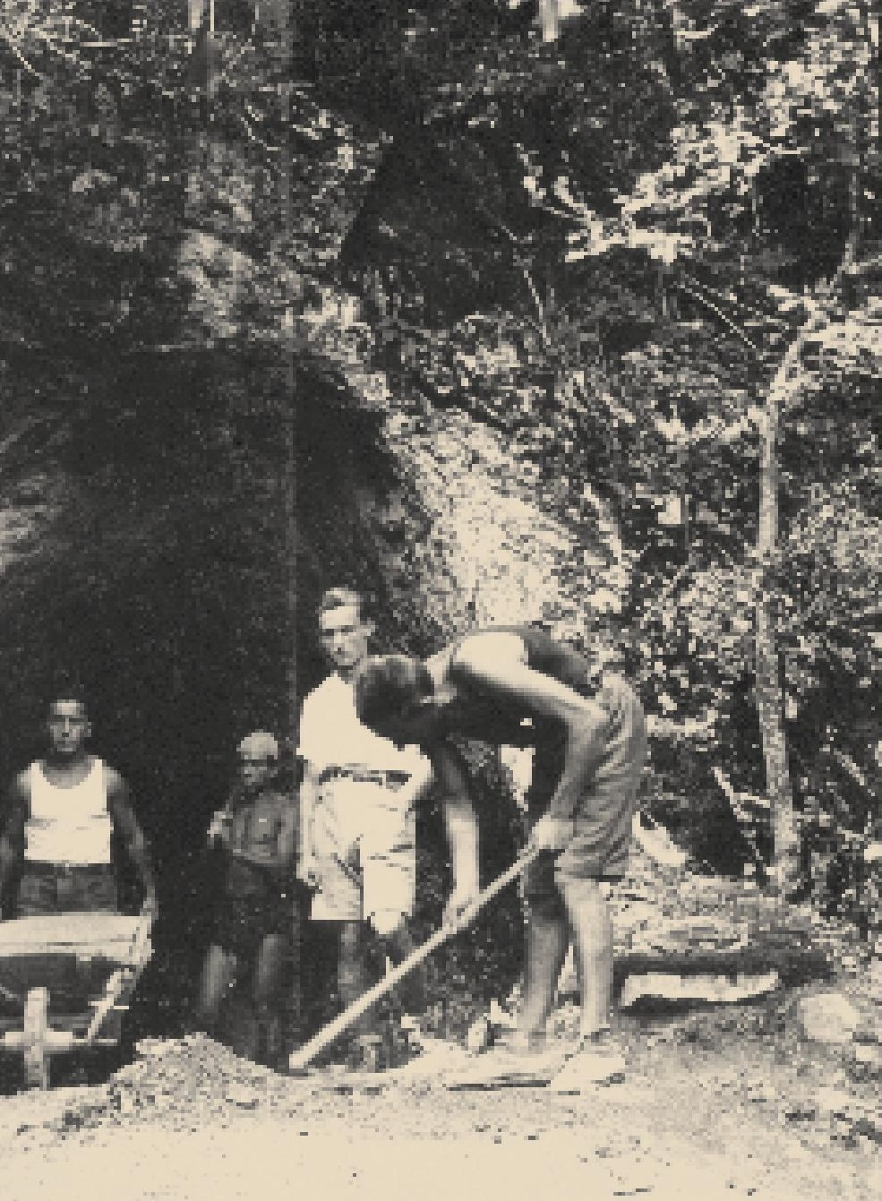 Work at Farkas-kő Cave in Hungary.